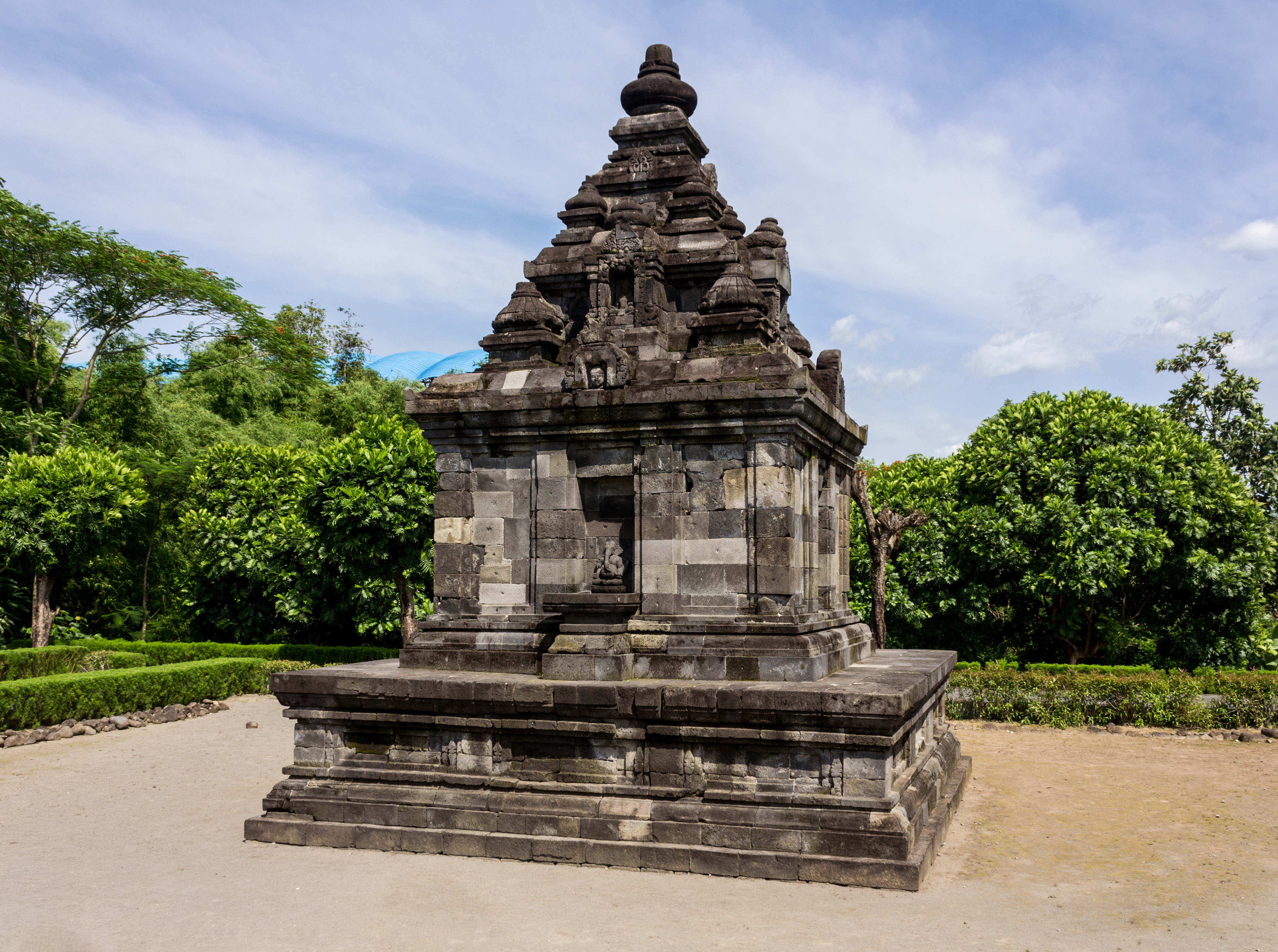 West-south-west view of Gebang Temple, Sleman